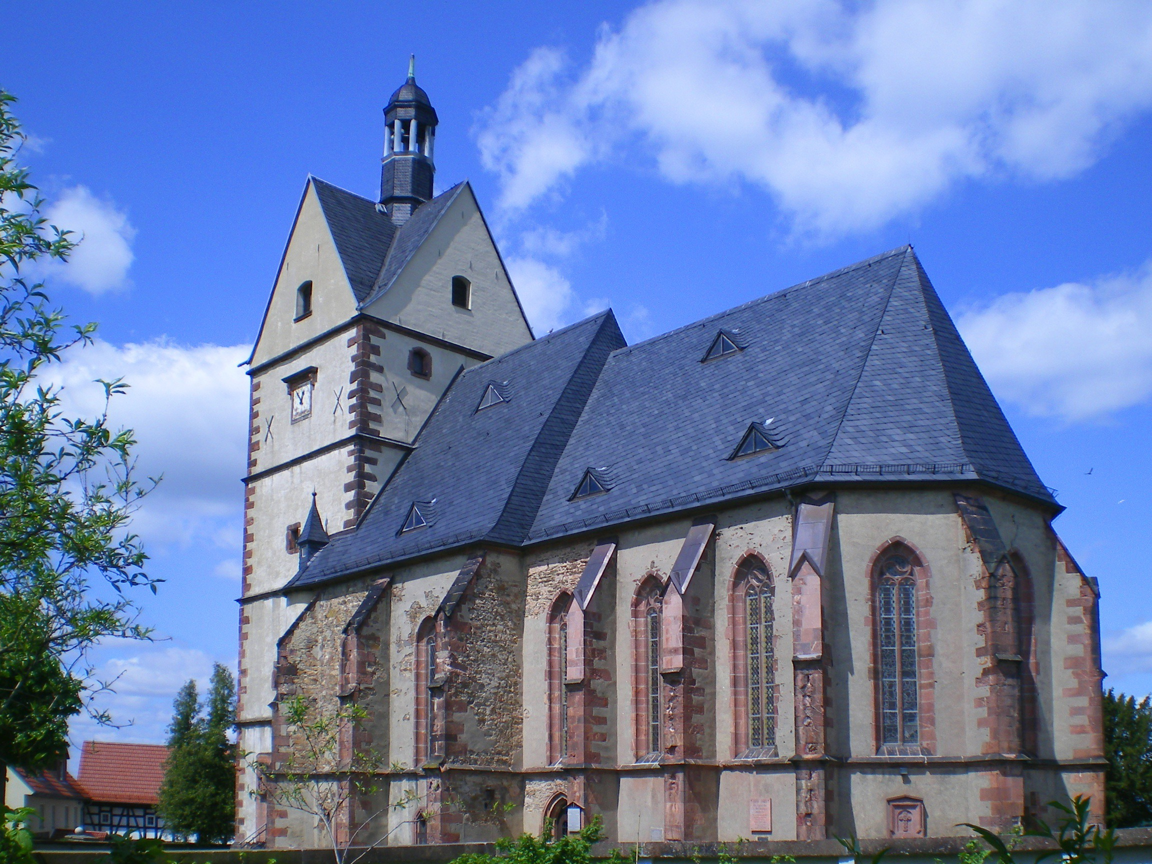 The Maria pilgrimage church in Ziegelheim near Altenburg in east of Thuringia/Germany